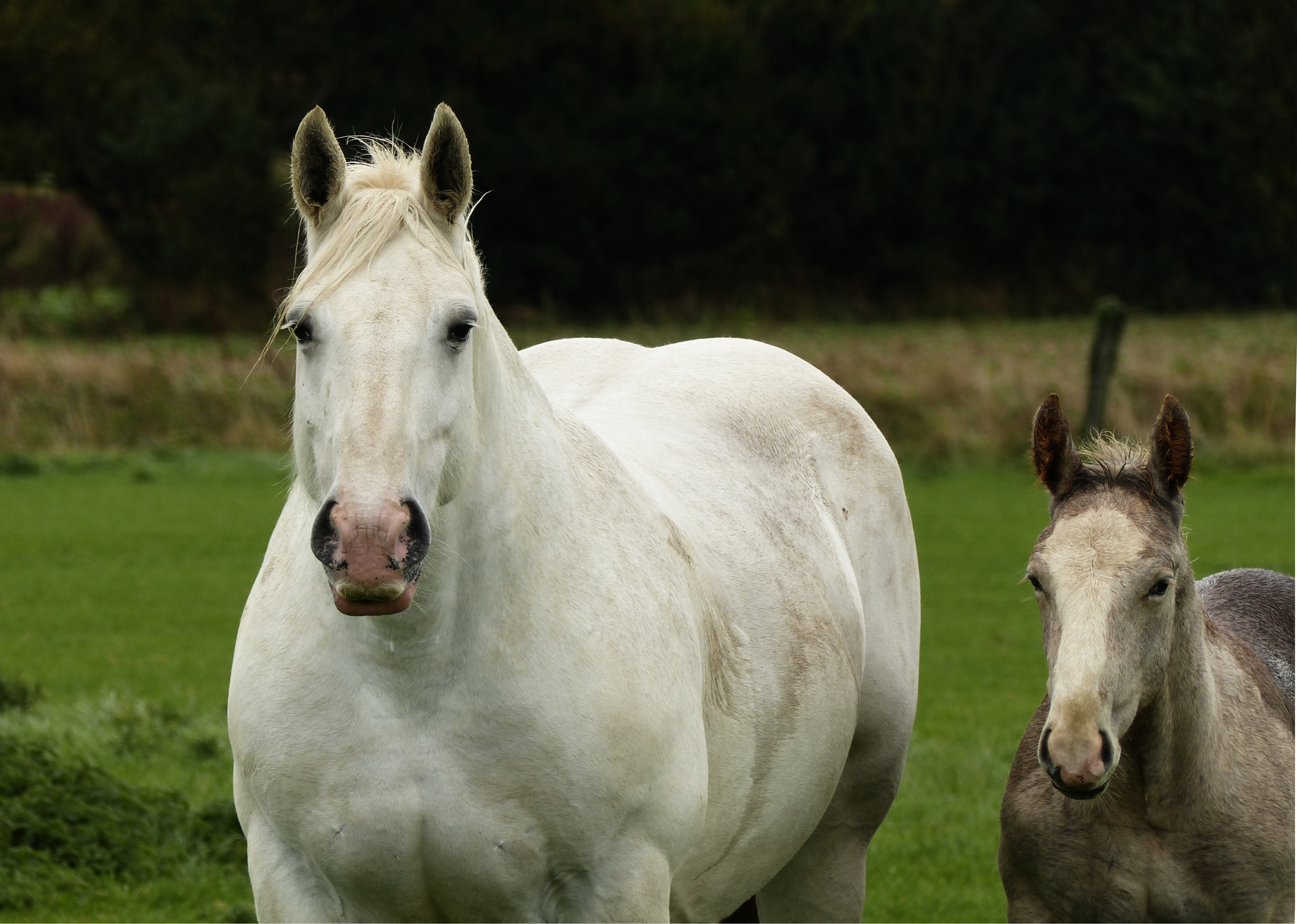 Boulonnais mare and foal, Samer, France